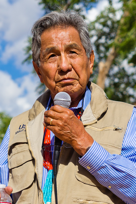 Peter MacDonald speaking at the Navajo Nation Council Chambers about the Navajo-Hopi Little Colorado River Water Rights Settlement Act in Window Rock, AZ